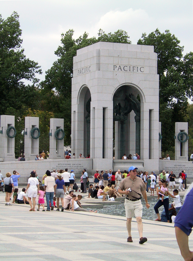 The Pacific side of the World War II Memorial on the National Mall in Washington, DC